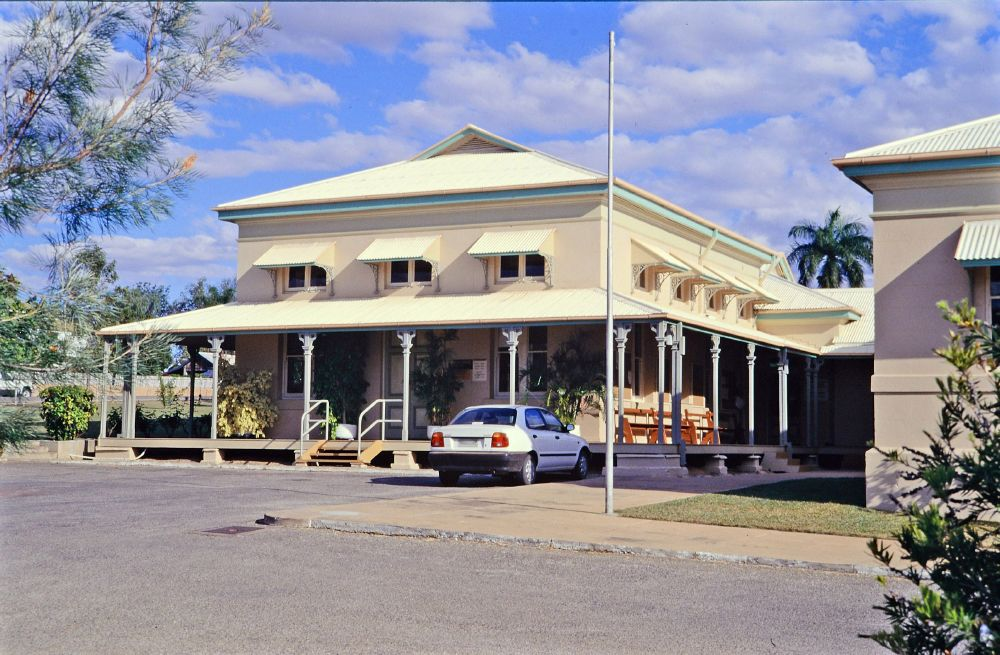 Mining Warden's Court (former), from N (1997), Charters Towers Courthouse